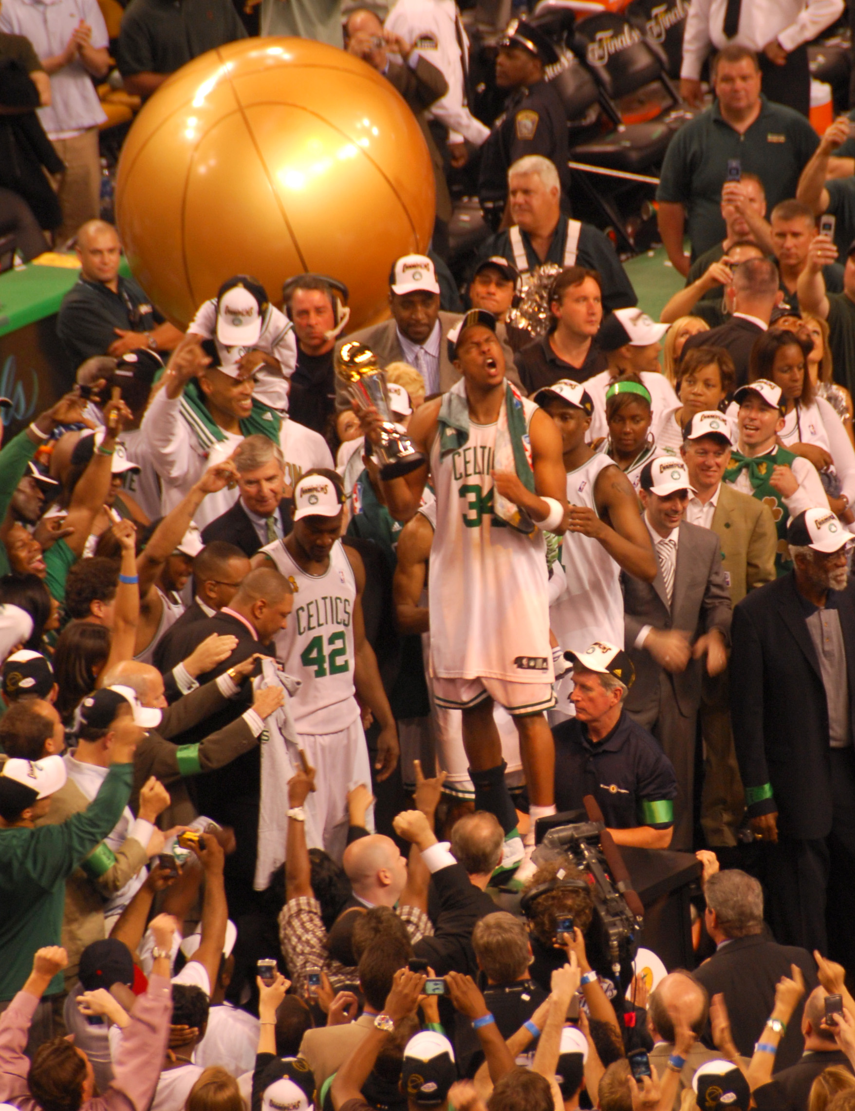 10 years in the making